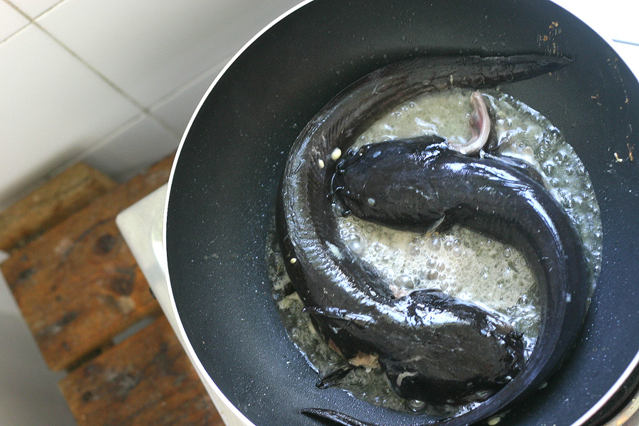 Sembilang or Black Tailed Catfish (Clarias sp.)